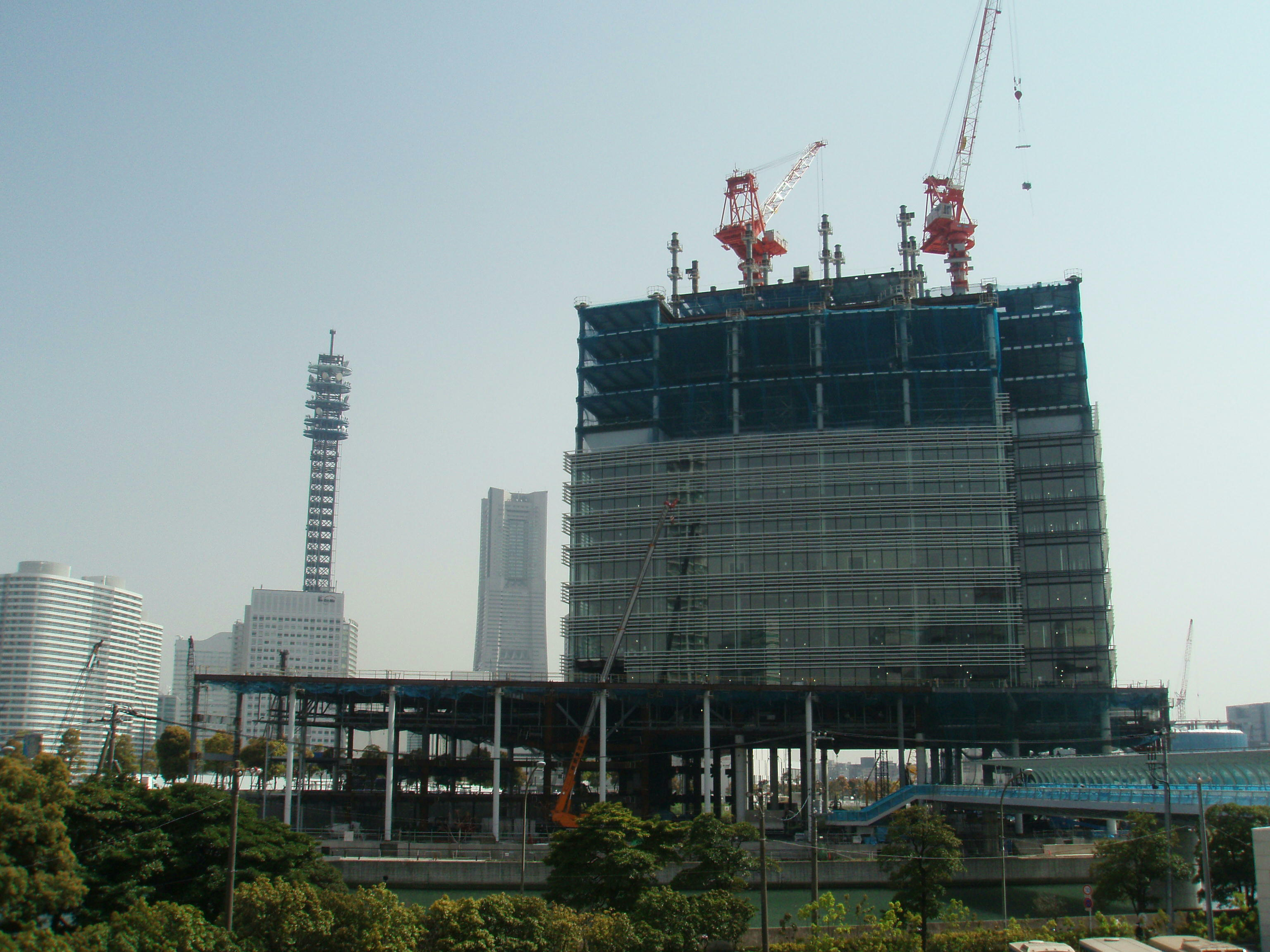 NISSAN New HQ Building(Under construction in Apr in 2008)